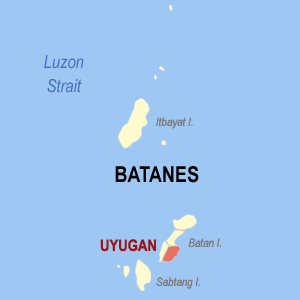 Map of Batanes showing the location of Uyugan